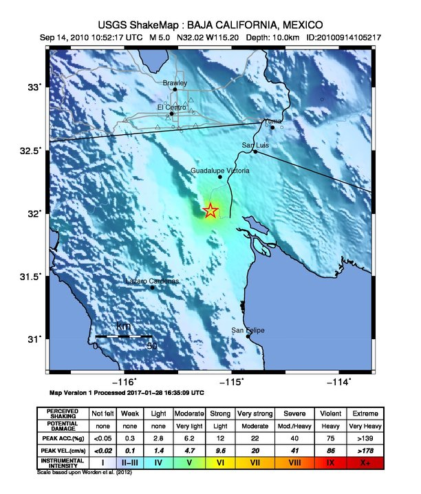 M 5.0 - 20km S of Alberto Oviedo Mota, B.C., MX 2010-09-14 10:52:18 (UTC)